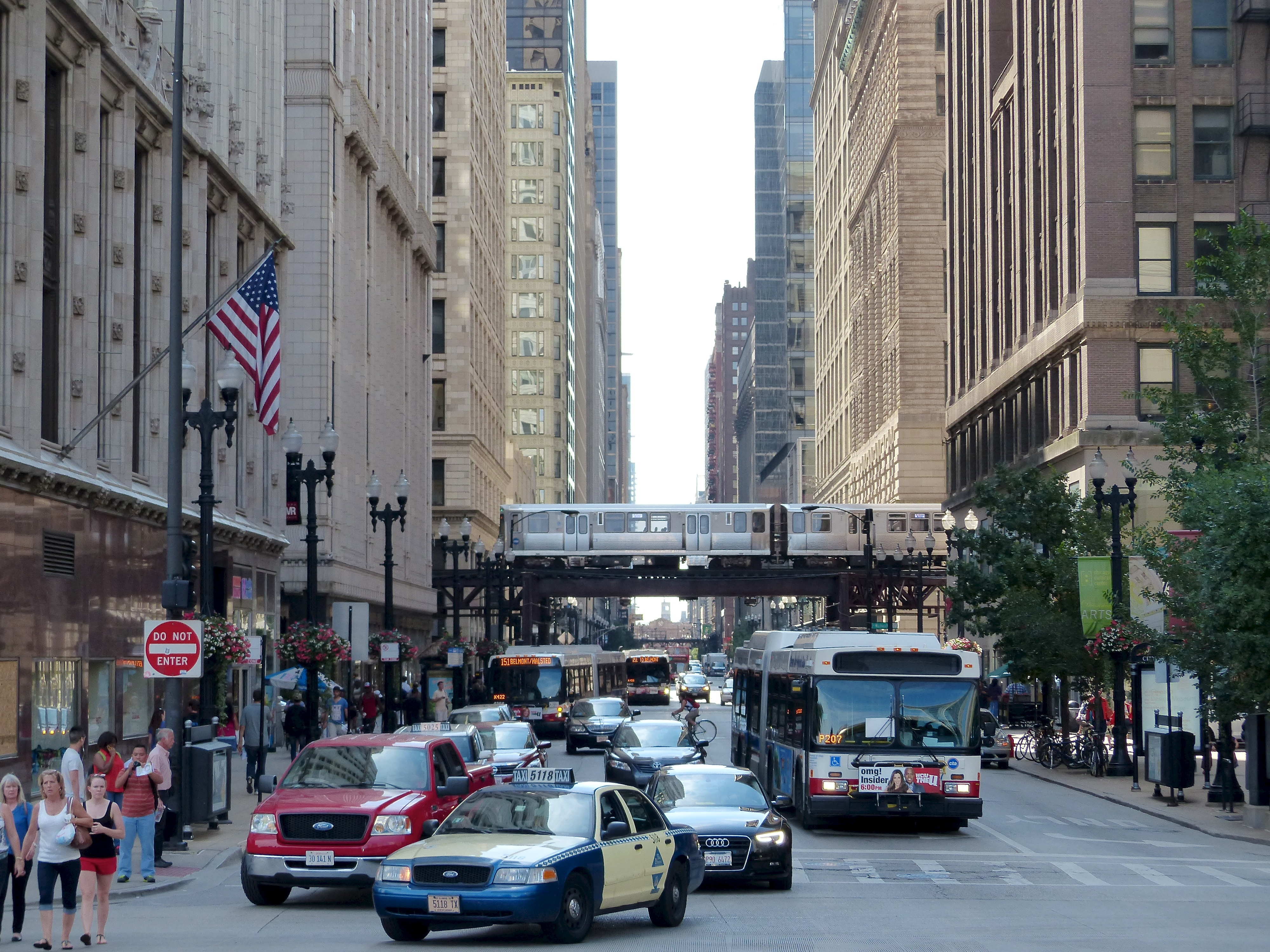 Chicago: The Loop